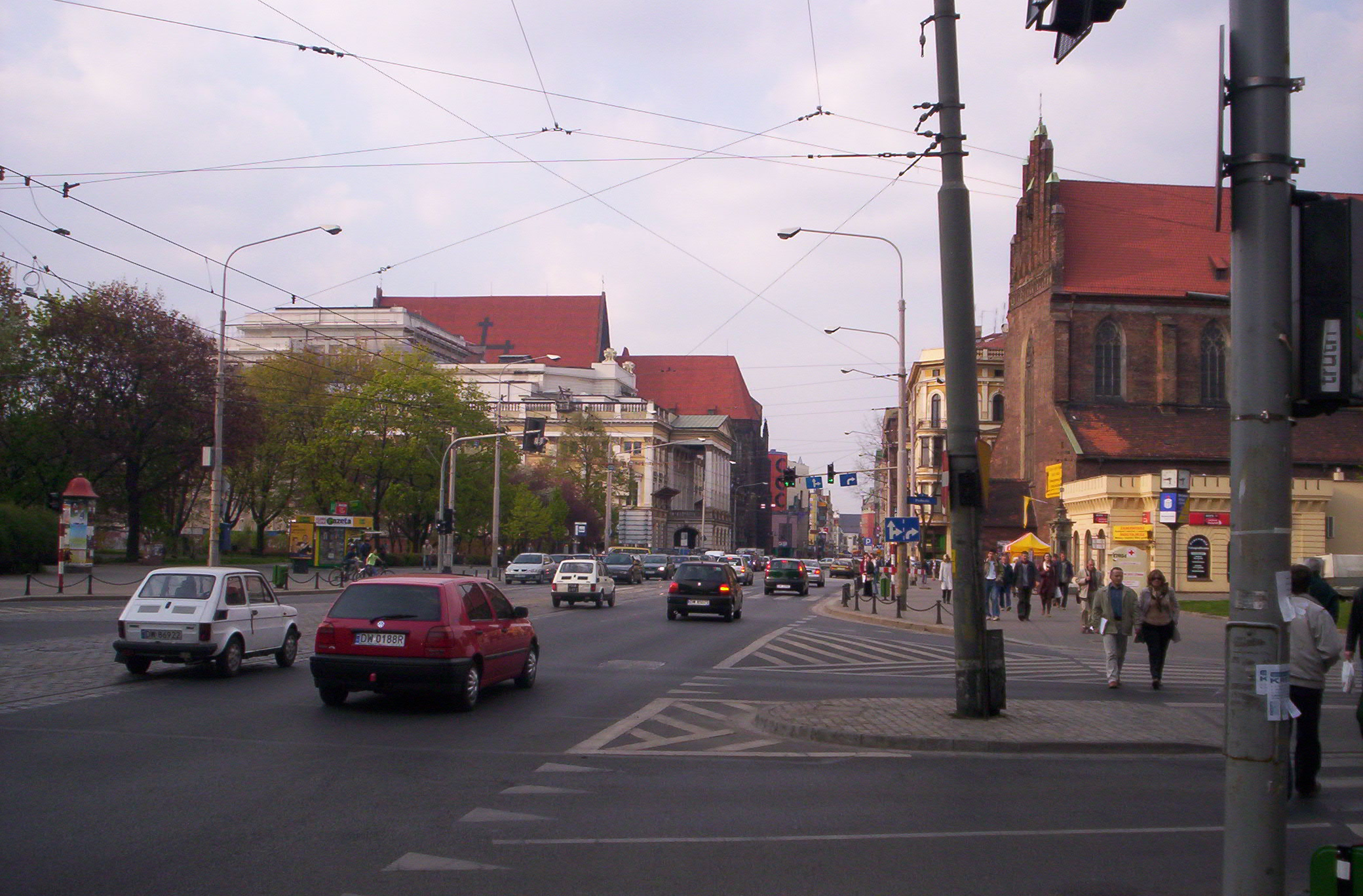 Wrocław, ulica Świdnicka (Świdnica street). Picture taken on April 26, 2005 by Paweł Dembowski